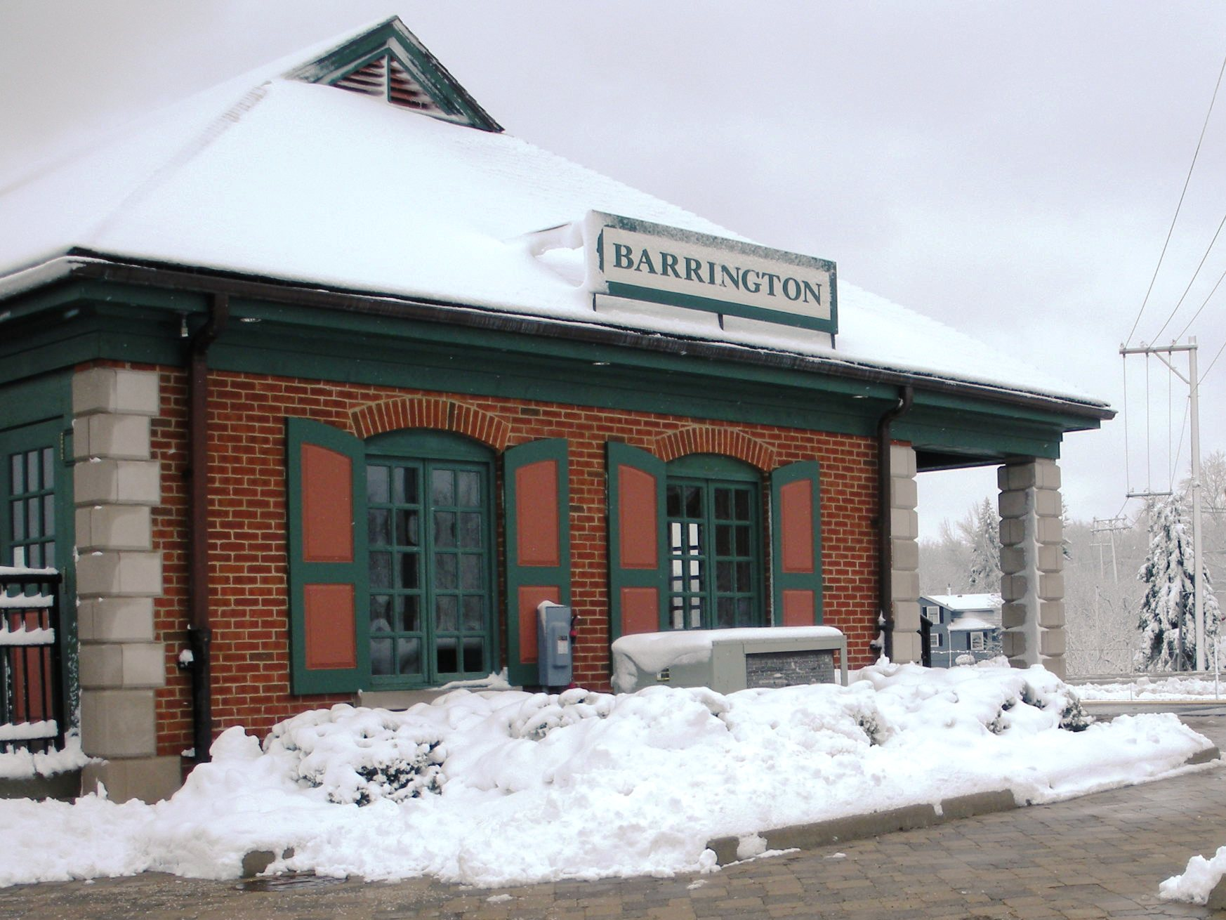 Photograph of train station at Barrington, Illinois for Chicago-Northwestern train line.